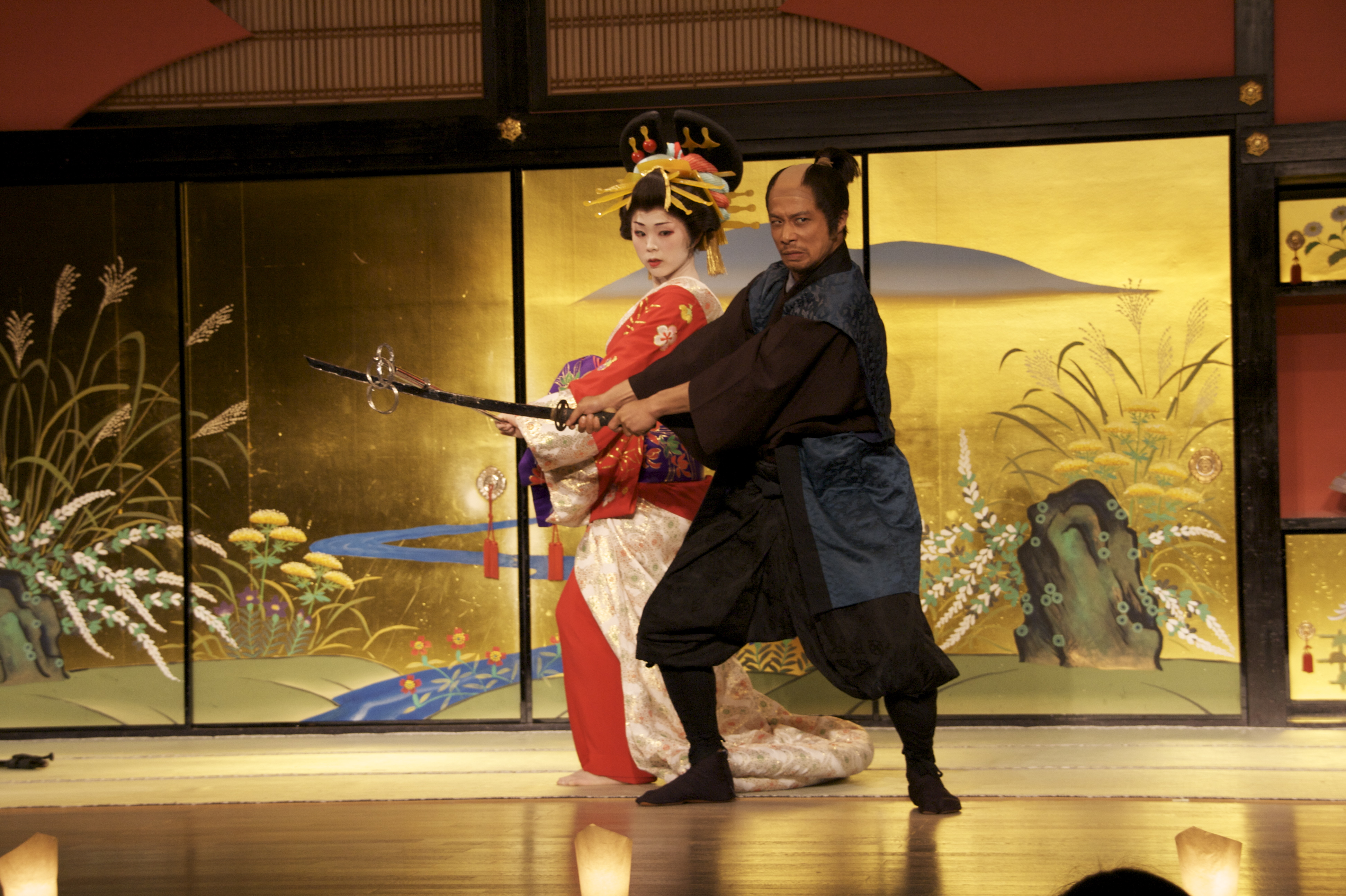 Oiran Show @ Nikko Edo-mura also call Edo Wonderland